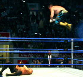 Eddie Guerrero gives a Frog Splash during his tag team match with Rey Mysterio against the Basham Brothers during a WWE house show held in Kitchener, Ontario, Canada on January 15, 2005.frogsplash